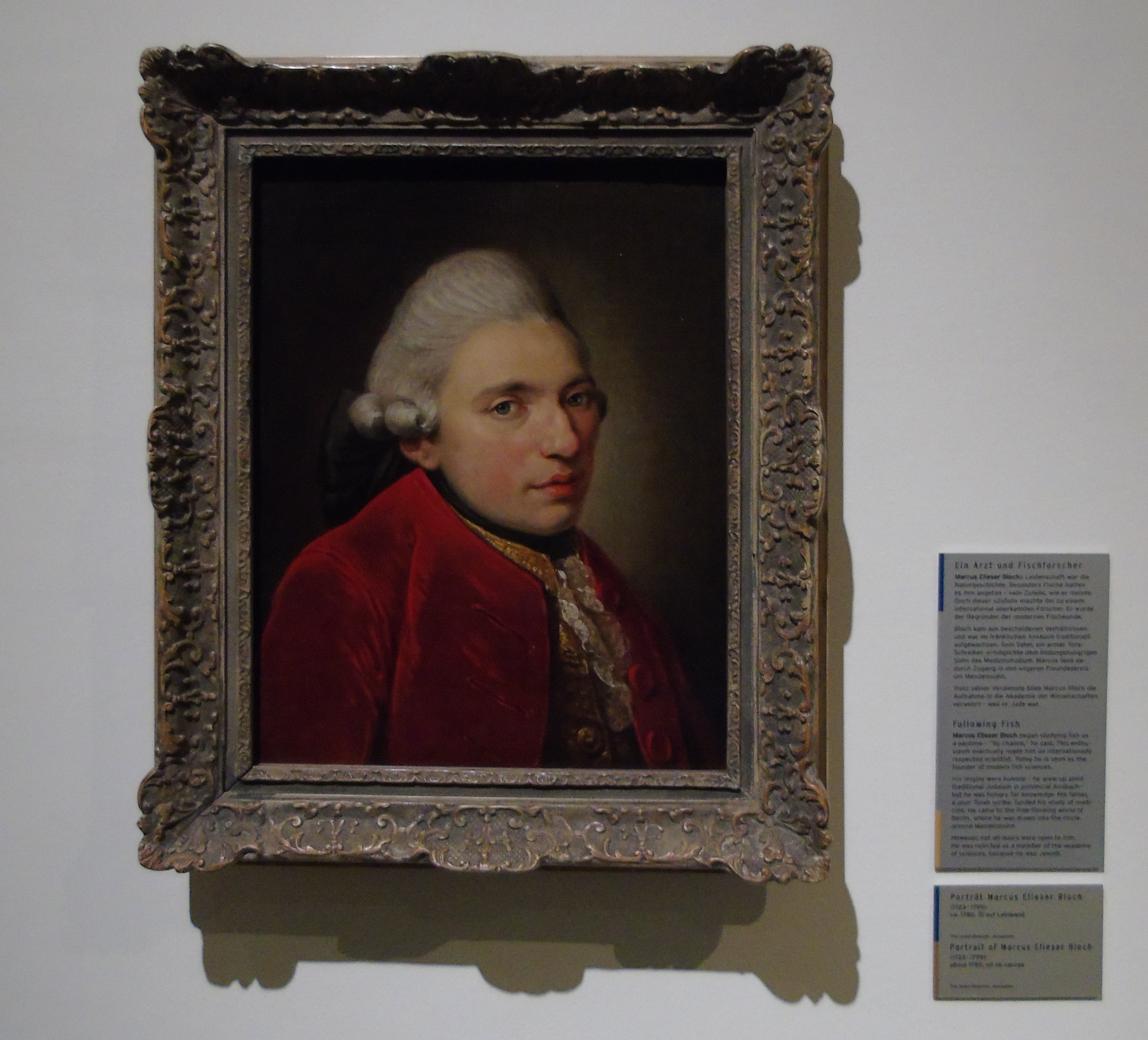 Marcus Élieser Bloch, portrait, ca. 1780